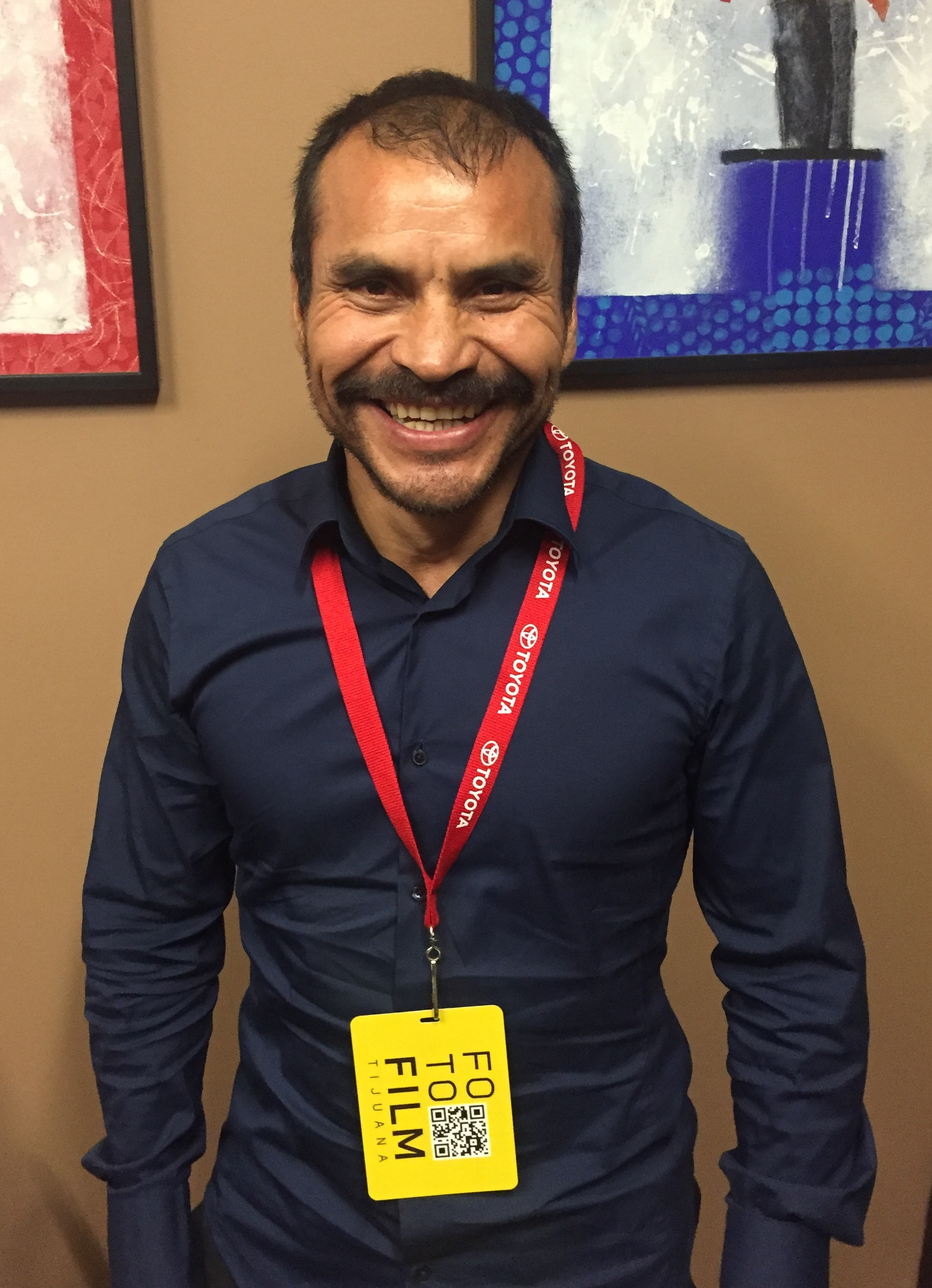 Mexican actor Noé Hernández at the FotoFilm Tijuana Festival following the presentation of "La Habitación - Tales of Mexico" in the Cineteca Carlos Monsiváis at the Centro Cultural Tijuana on July 15, 2017.